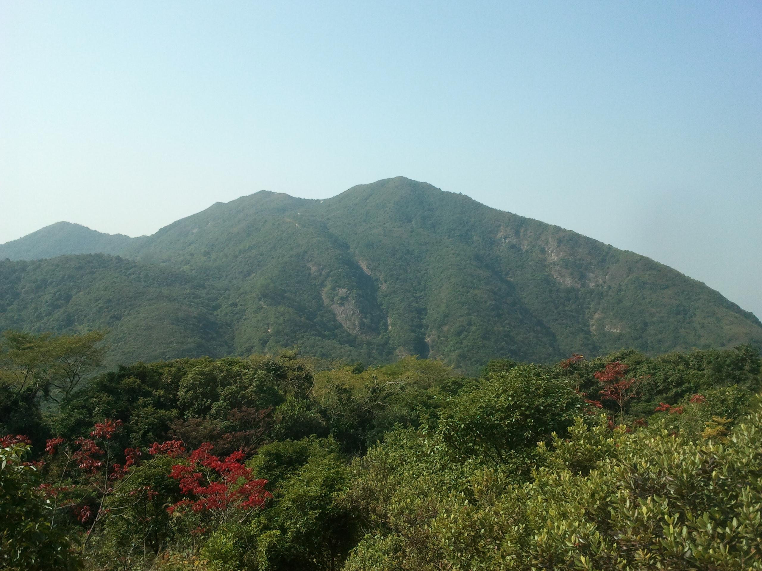 Kai Kung Shan in distance